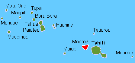 Location of Moorea within Society Islands, French Polynesia